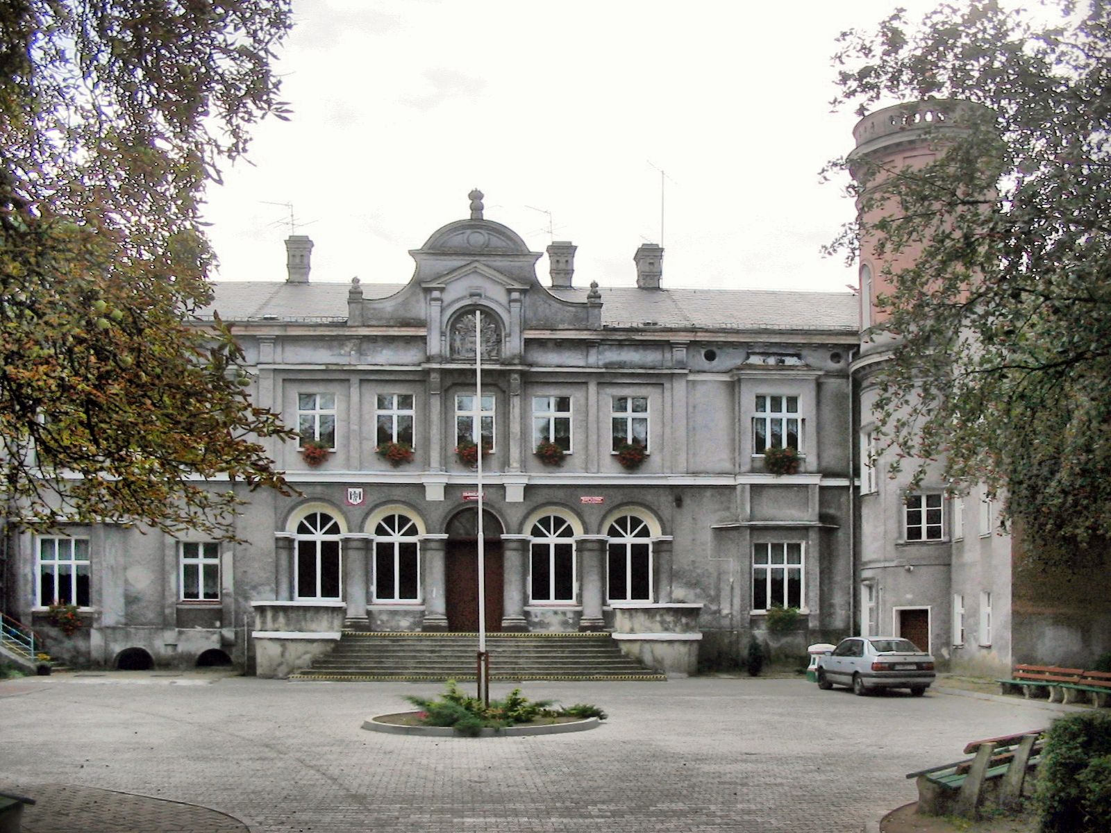 the palace in Pomorsko in Poland